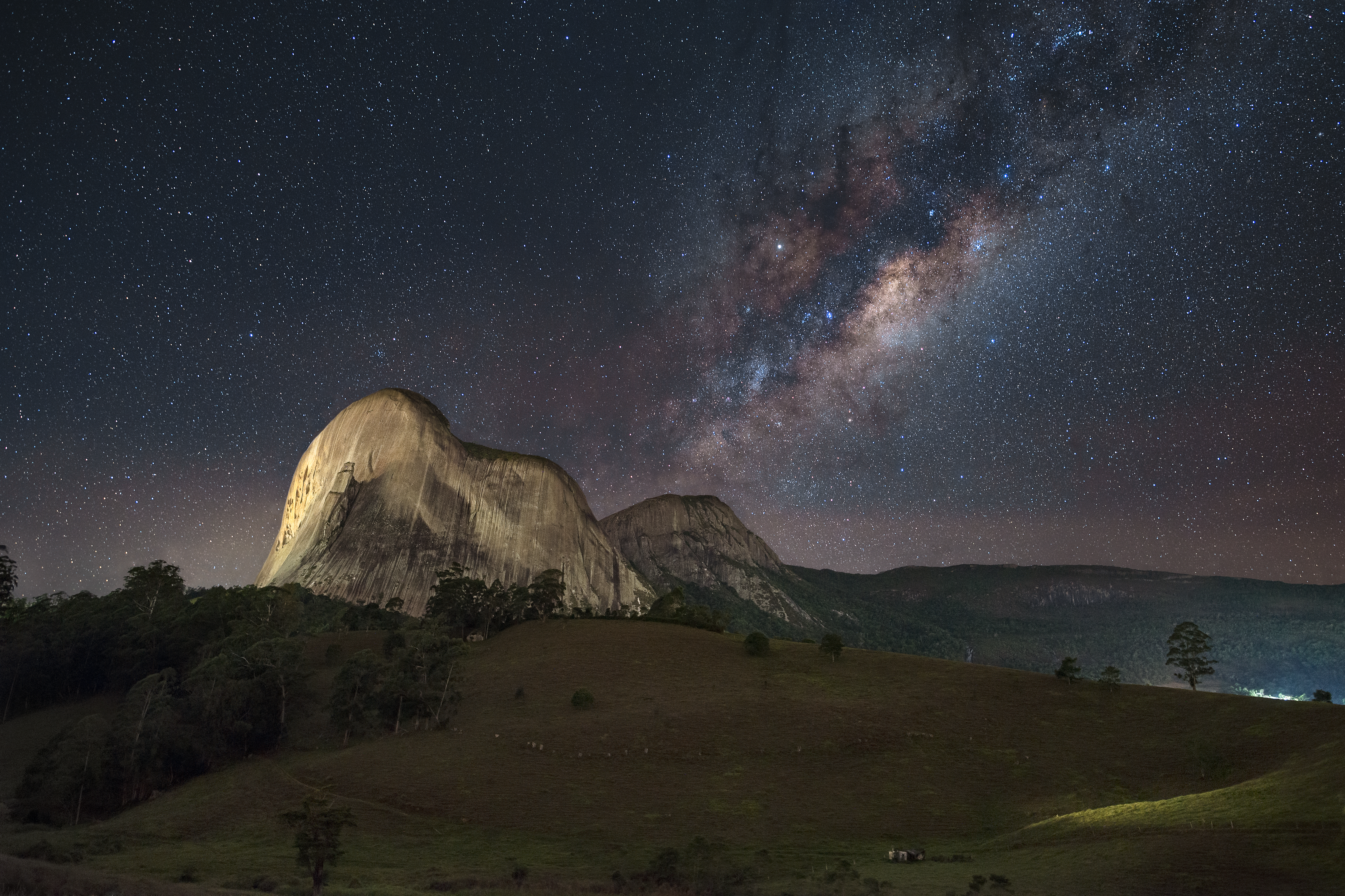 Pedra Azul (Blue Stone) peak with the center of the Milky Way above it. Pedra Azul State Park is a state park in Domingos Martins, Espírito Santo, Brazil.